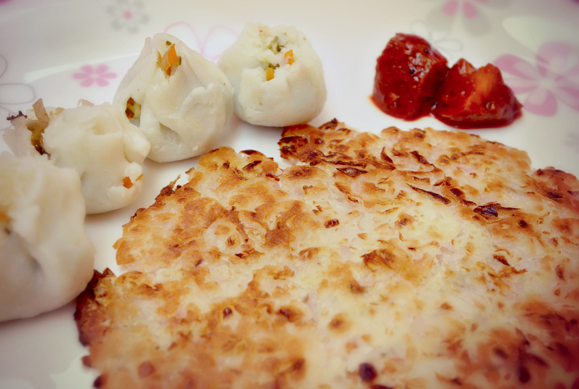 Sarvapindi is the famous breakfast of Andhra, its made of rice flour and with dollops of ghee to top it, it is tastiest when roasted well and is enhanced by little pickle or aavakai.